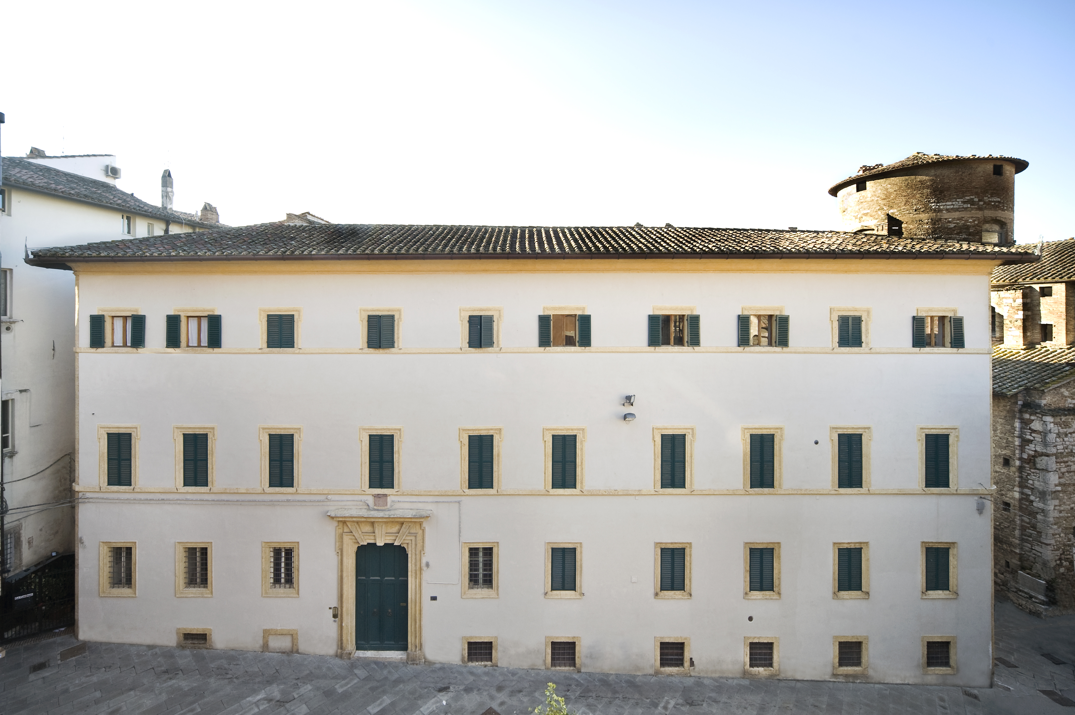 Facade of Palazzo degli Oddi Marini Clarelli